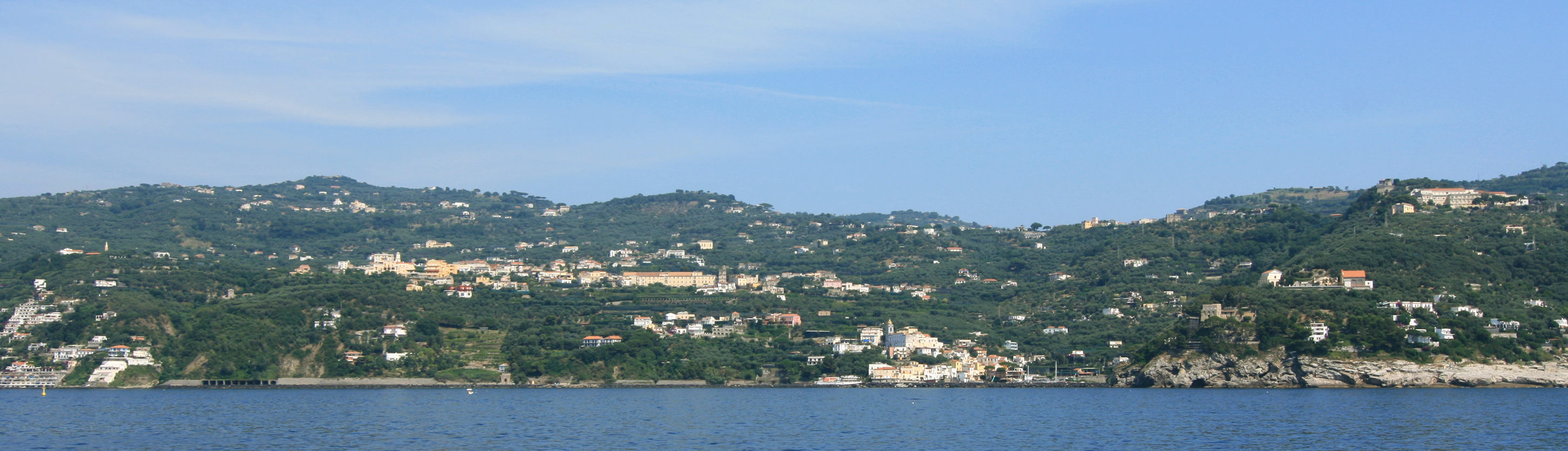 Massa Lubrense, Province of Naples, Italy.